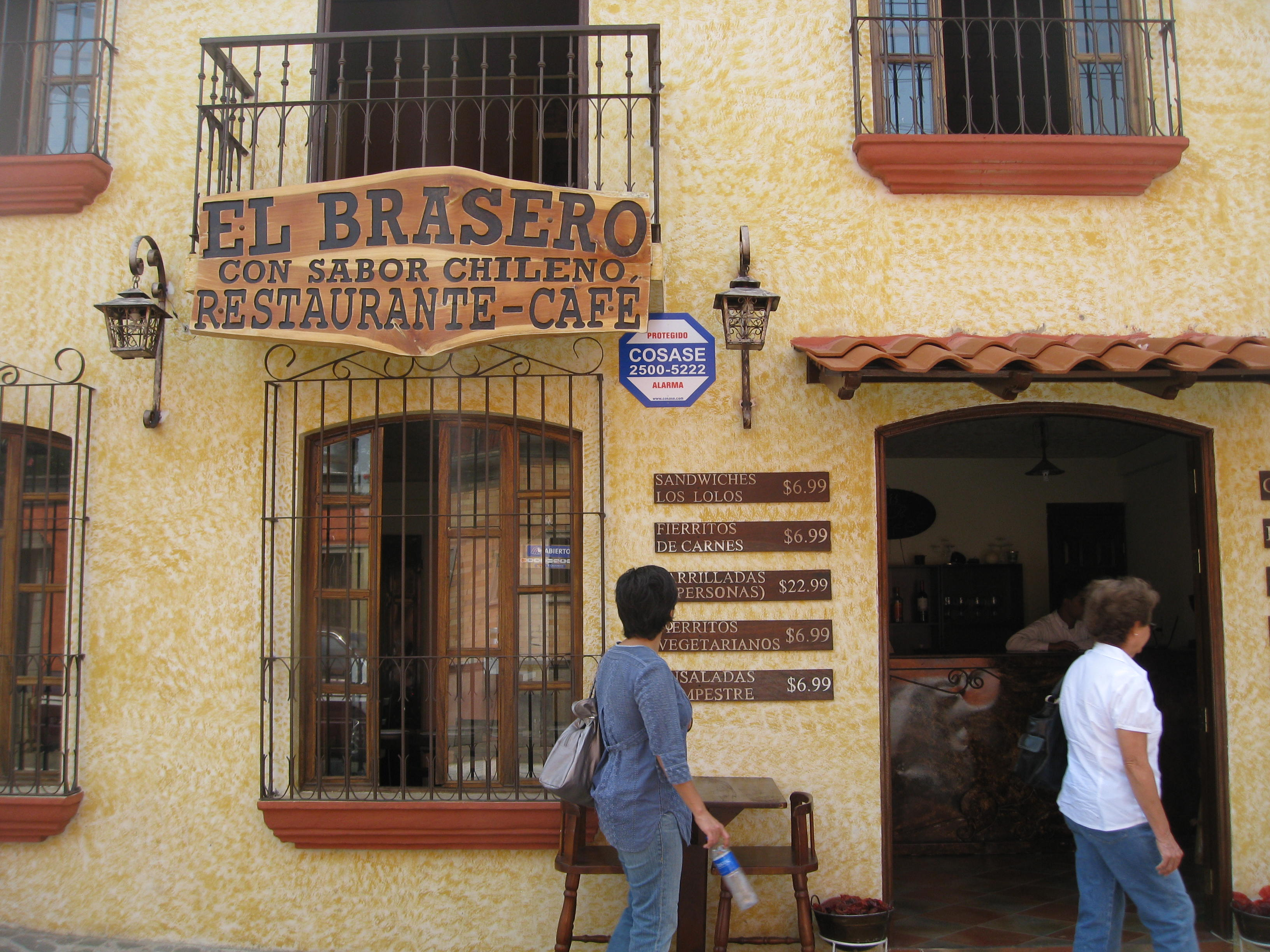 Chilean food in Ataco.